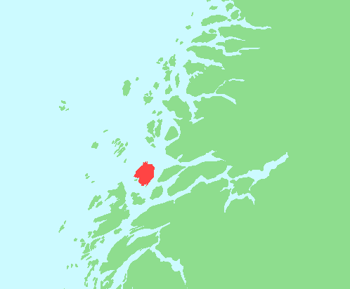 Locator map of Tomma, Nordland, Norway